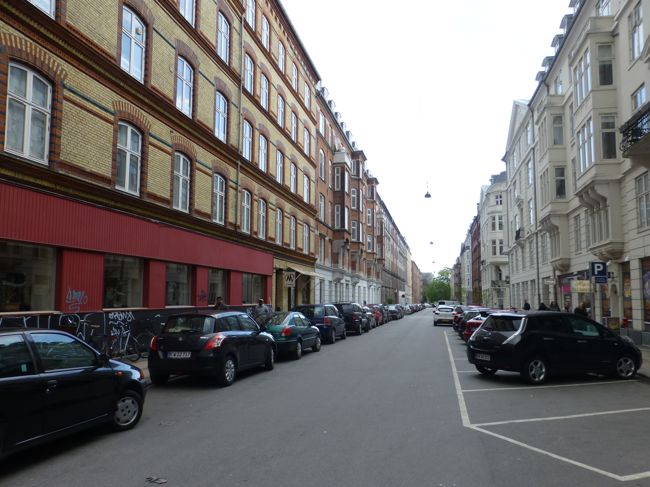 The street Odensegade at Østerbrogade in Østerbro in Copenhagen.